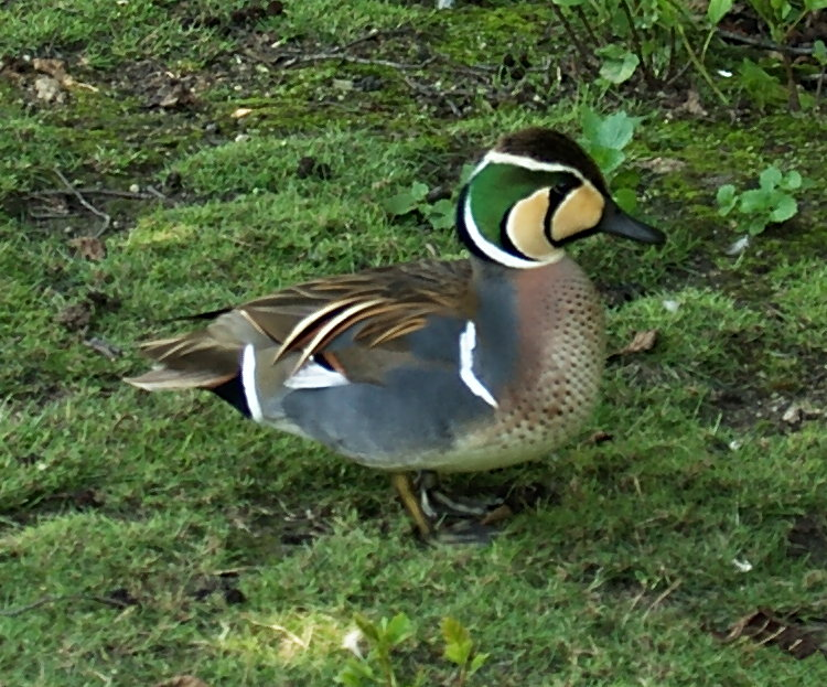 male Anas formosa from Cologne Zoo, Germany.